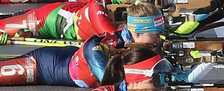 Khrystyna Dmytrenko YOG 2016 Biathlon mixed relay